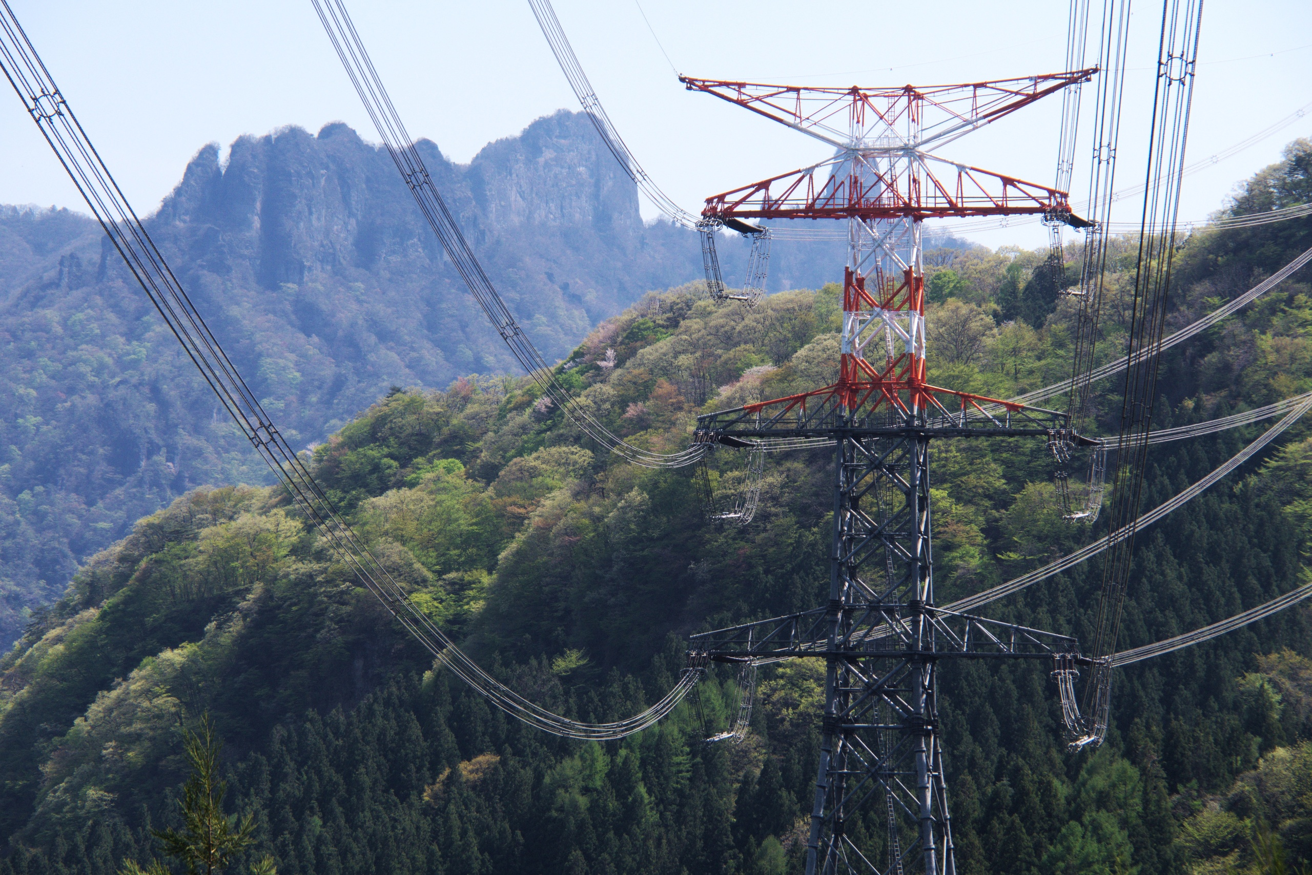 Pylon of the West Gunma Trunk Line (500 kV), Matsuidamachi Sakamoto, Annaka, Gunma Prefecture 379-0307, Japan